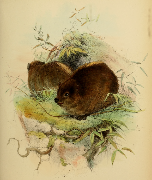 drawing of the Western Tree hyrax (Dendrohyrax dorsalis), published by Louis Fraser as Hyrax dorsalis in his original species description: Louis Fraser: Description of a new species of Hyrax from Fernando Po. Proceedings of the Zoological Society of London 20, 1852, p. 99